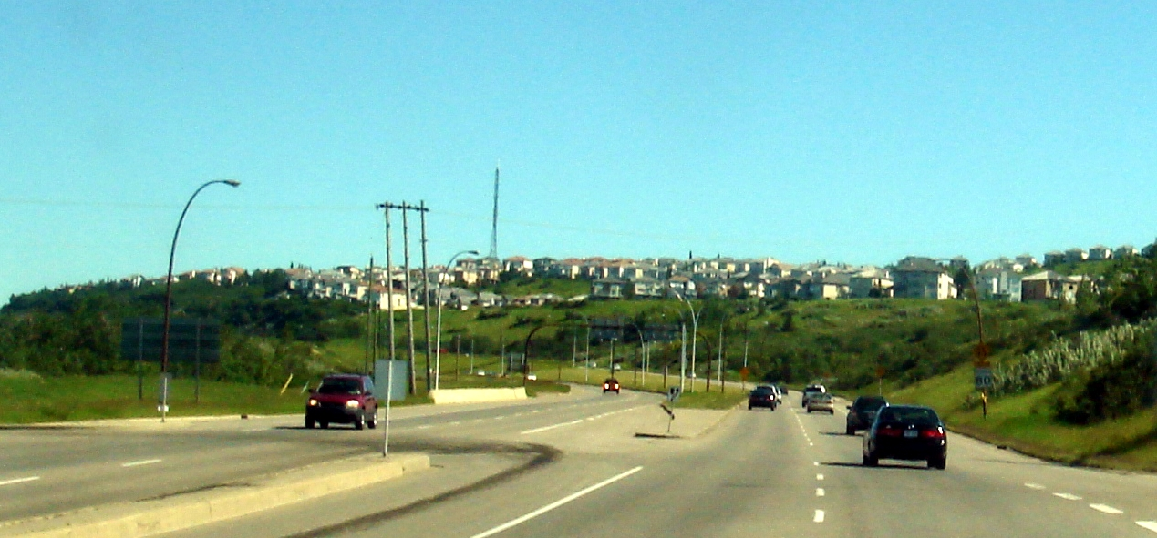 Neighbourhood og Pattersin (old olympic Village) seen from Sarcee Road